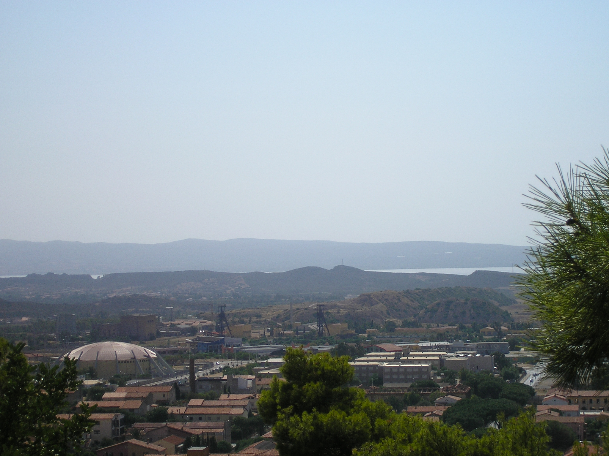 The Serbariu coalmine seen from monte Rosmarino, in Carbonia, Sardinia, Italy